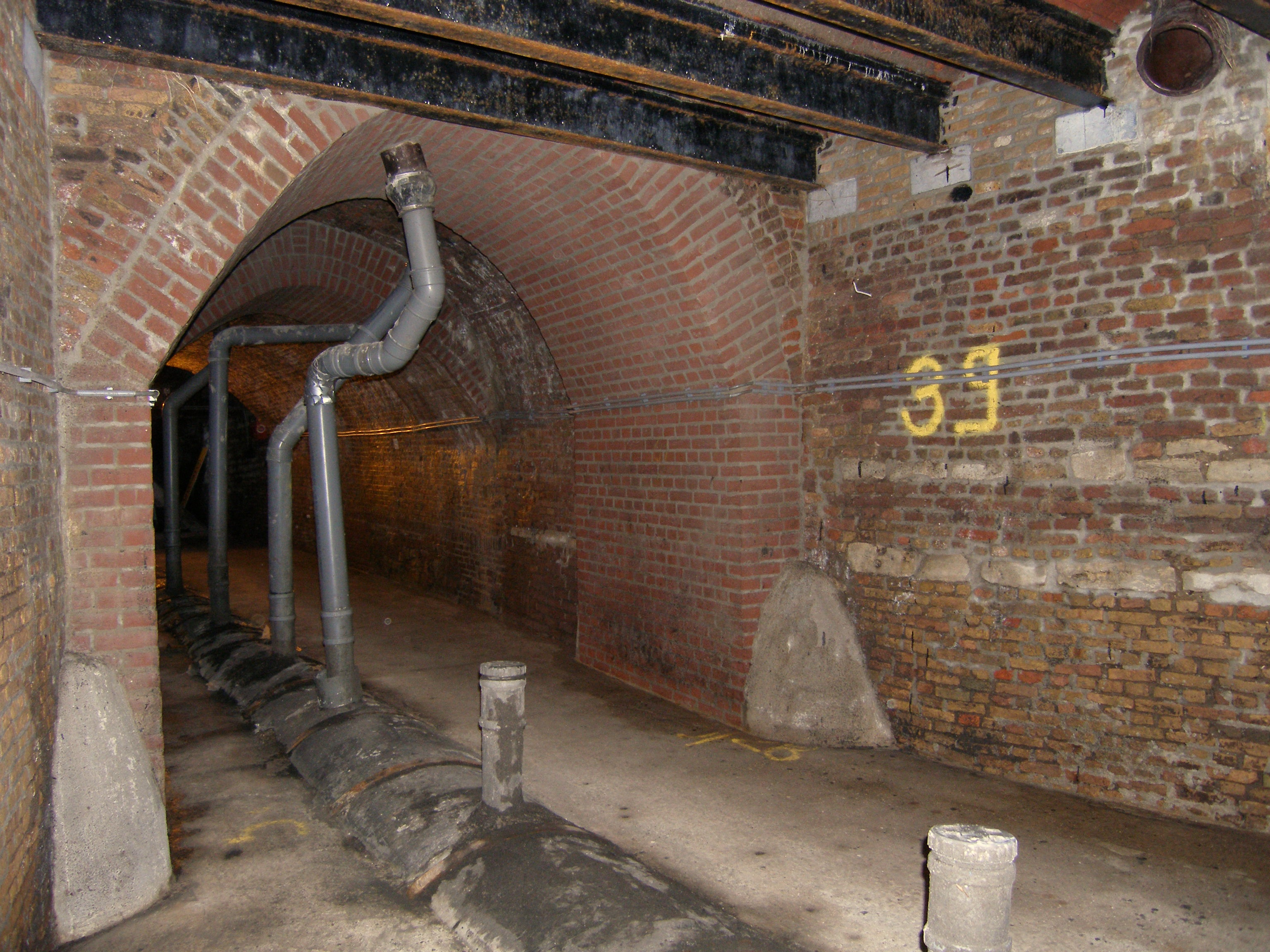 De Grebbe, a sewer in Bergen op Zoom that originates from the 13th century AD. Picture taken near 39 Moeregrebstraat.